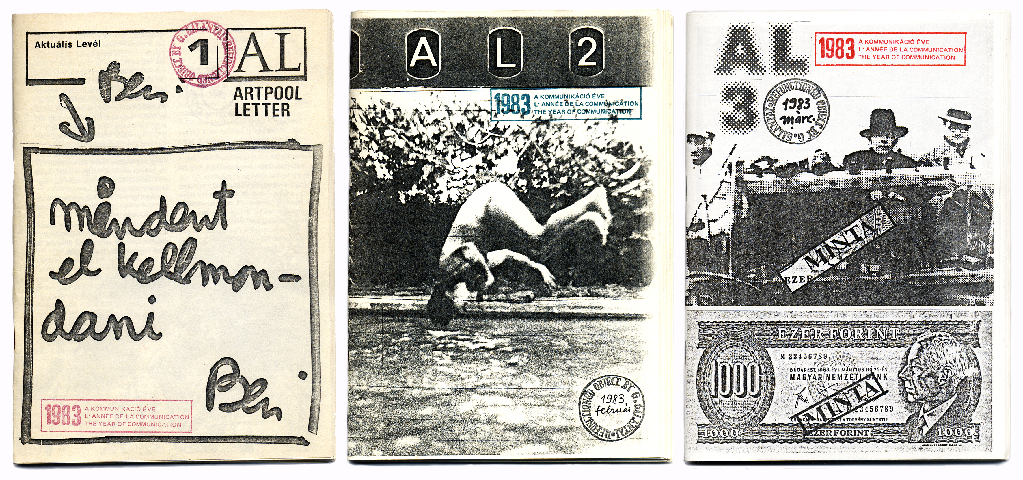 The covers of the first three issues of the samizdat periodical Artpool Letter. Design: György Galántai, 1983